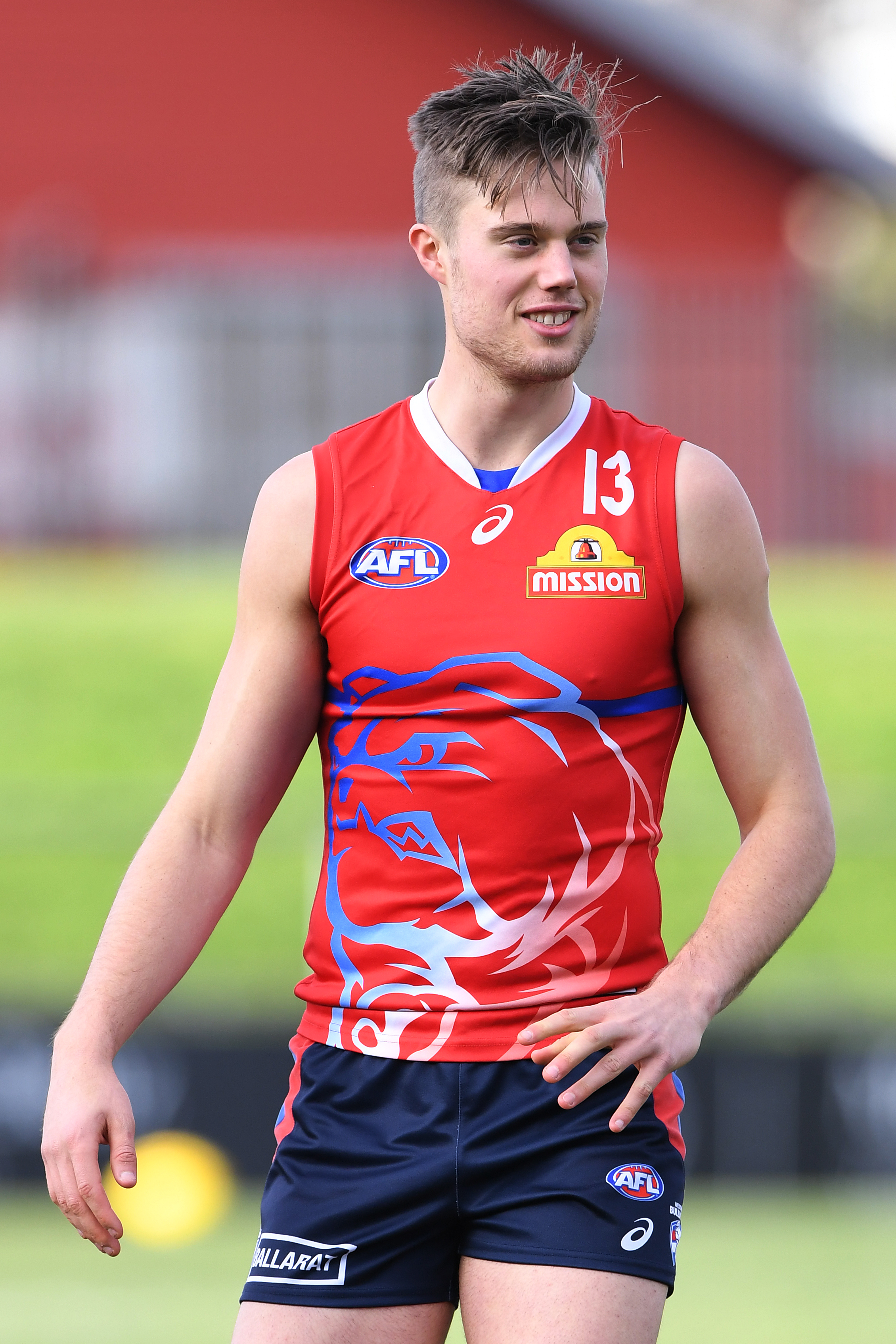 Josh Schache of the Western Bulldogs during Western Bulldogs training on 7 August 2018 at Whitten Oval in Melbourne, Victoria.